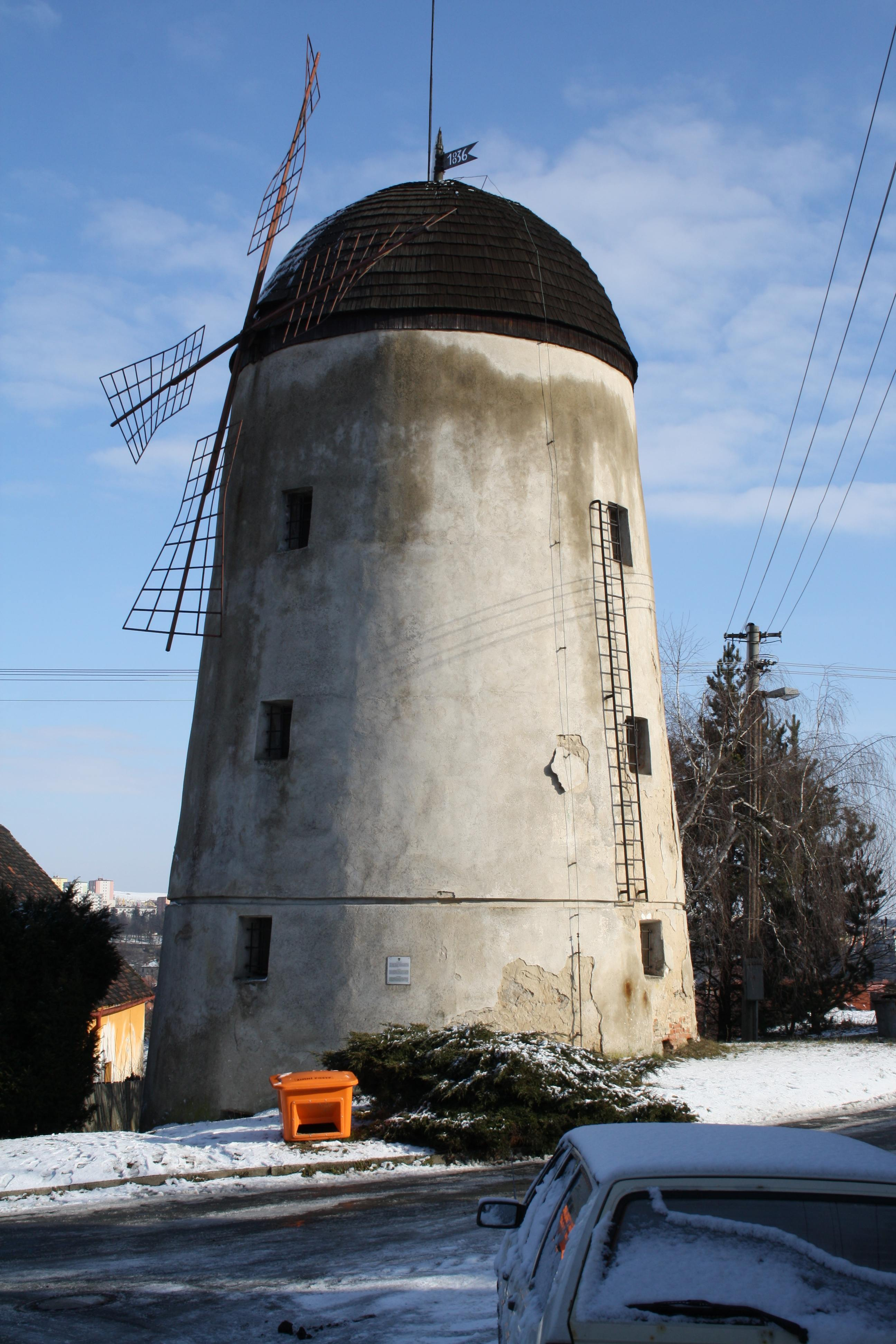 Overview to windmill in Třebíč, Stařečka.